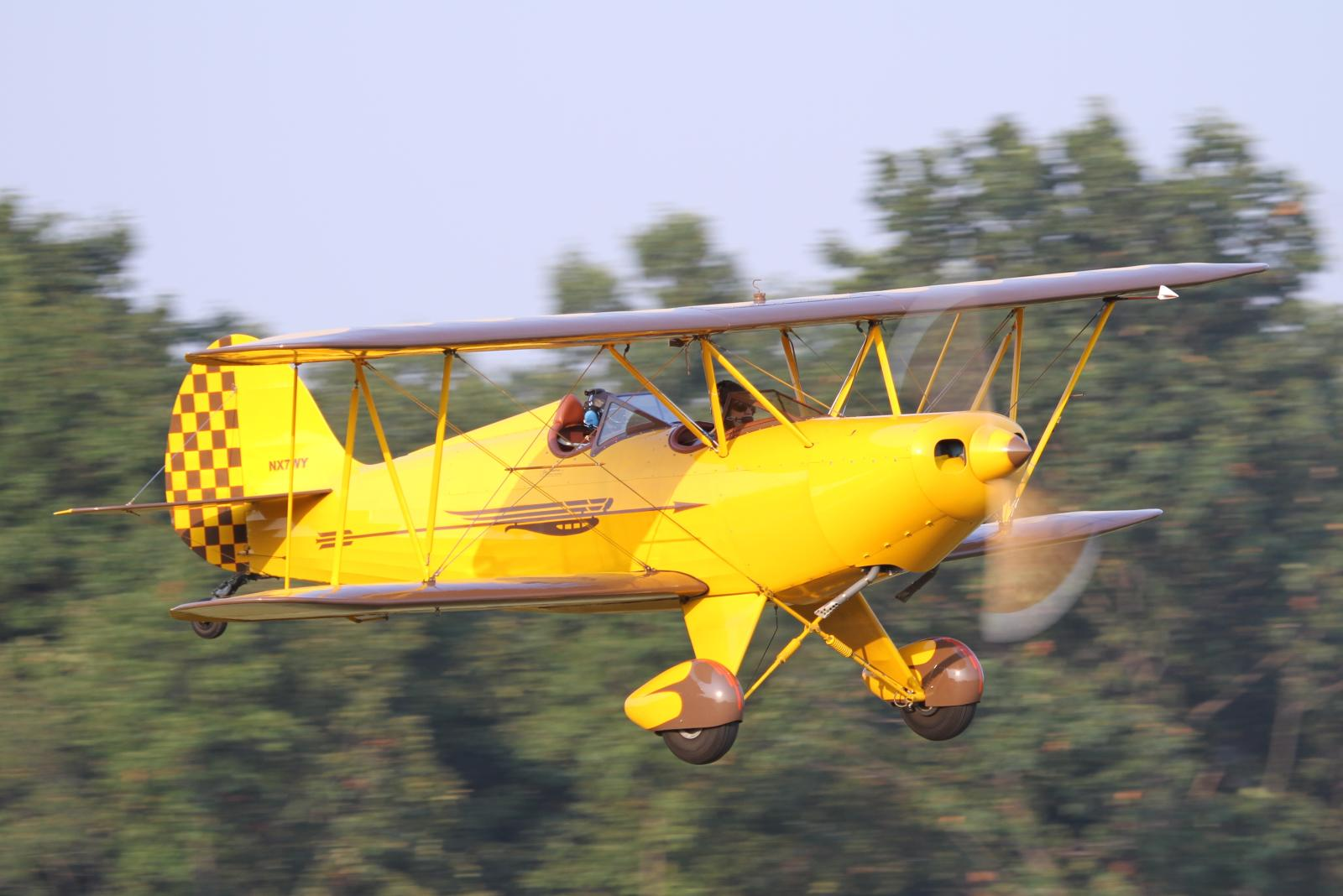 2003 Hatz Classic